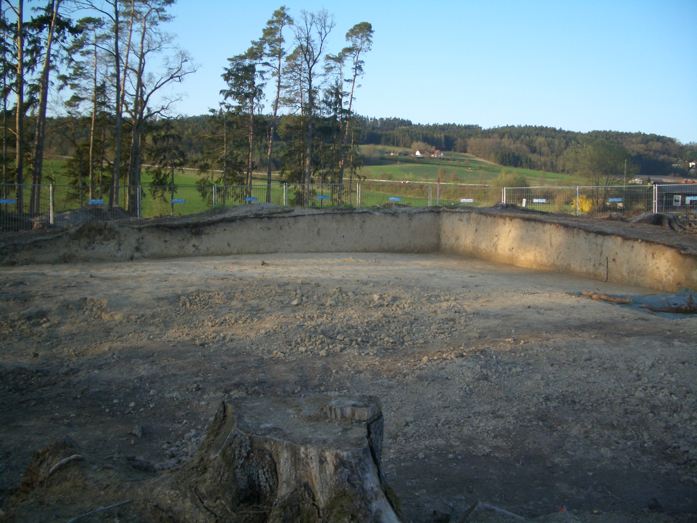 Archaeological excavation near Unterweitersdorf, Upper Austria